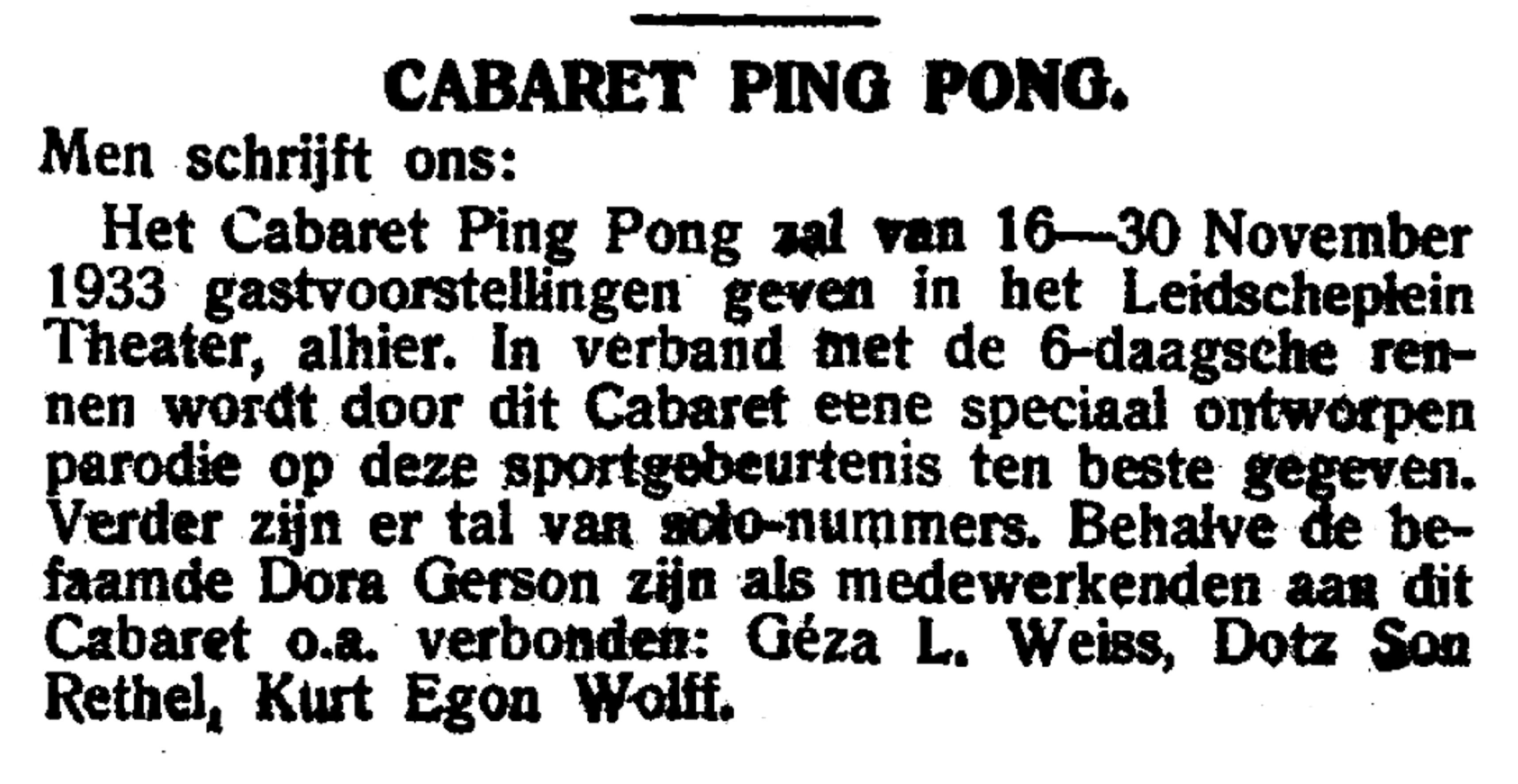 Advertisement for Ping-Pong Cabaret 1933